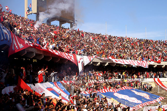 I did take this picture by my sony p-200 Camera In 11 June Stadium ( Tripoli-Libya) During the match between Al Ittihad of Libya & Al Ahly T.